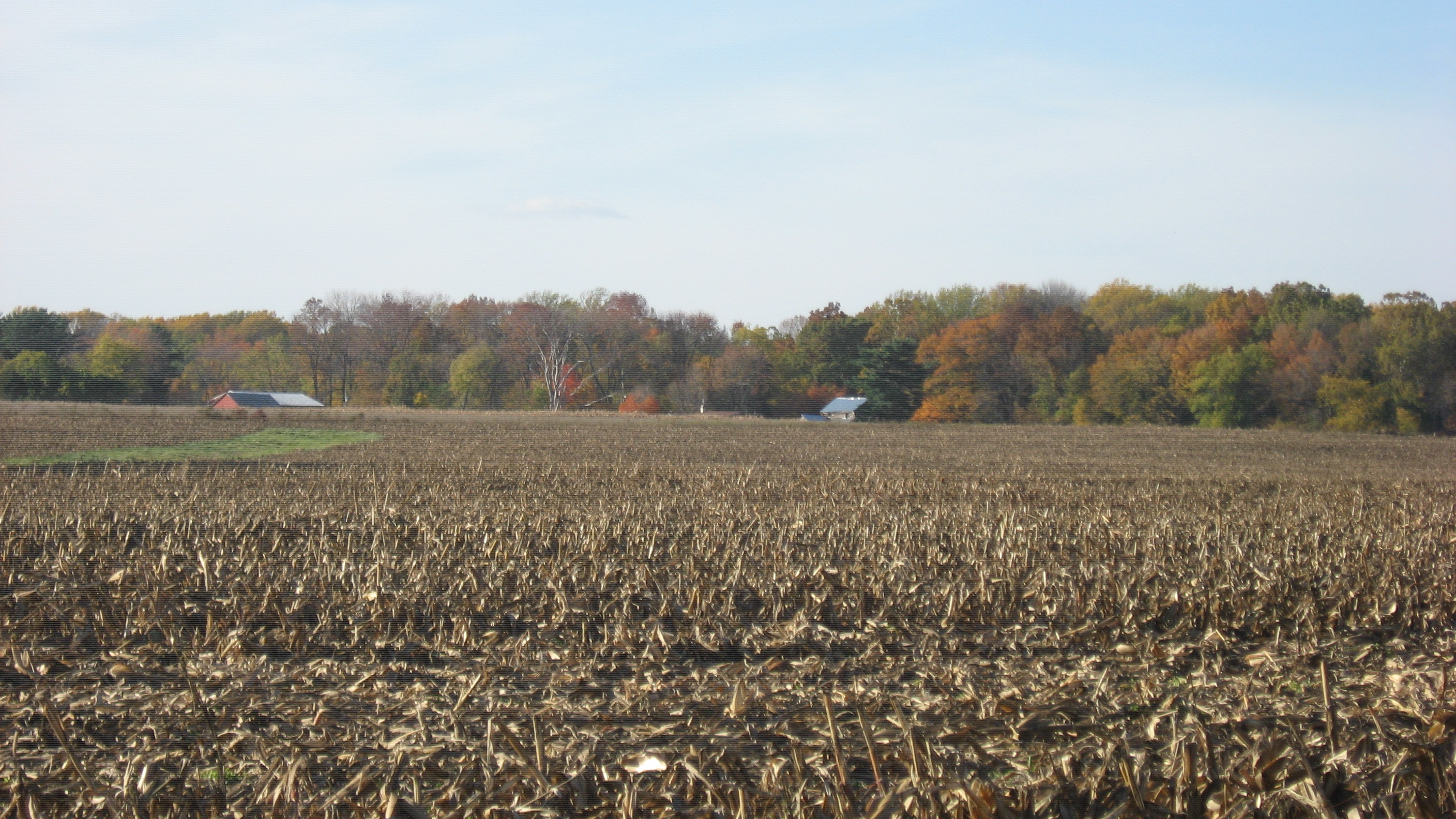 Looking over the fields toward the Joseph Finney House, located off County Road 216 west of Annapolis in Penn Township, Parke County, Indiana, United States. Built in 1827, it is listed on the National Register of Historic Places. The picture is taken from County Road 150W, more than half a mile to the southeast; this is the only angle from which the house could be seen, due to the cornfield along its winding half-mile driveway and due to trees located between the house and closer sections of road.